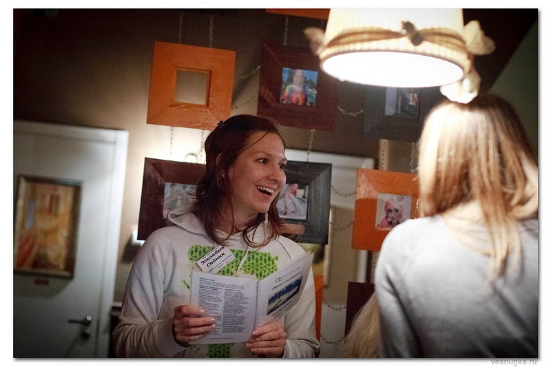 reading the charshit